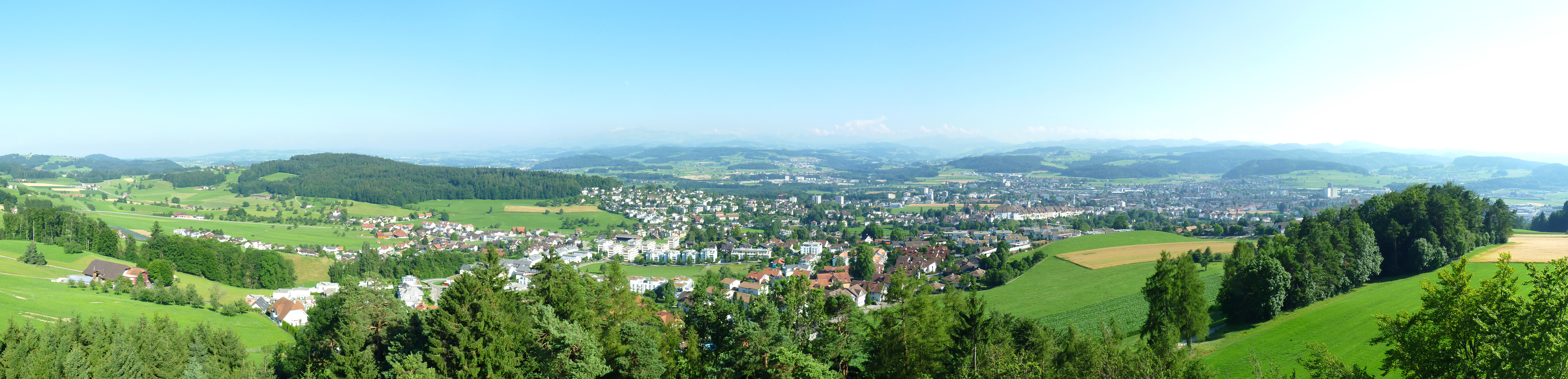 Panorama of Wil, taken on the Wil Tower